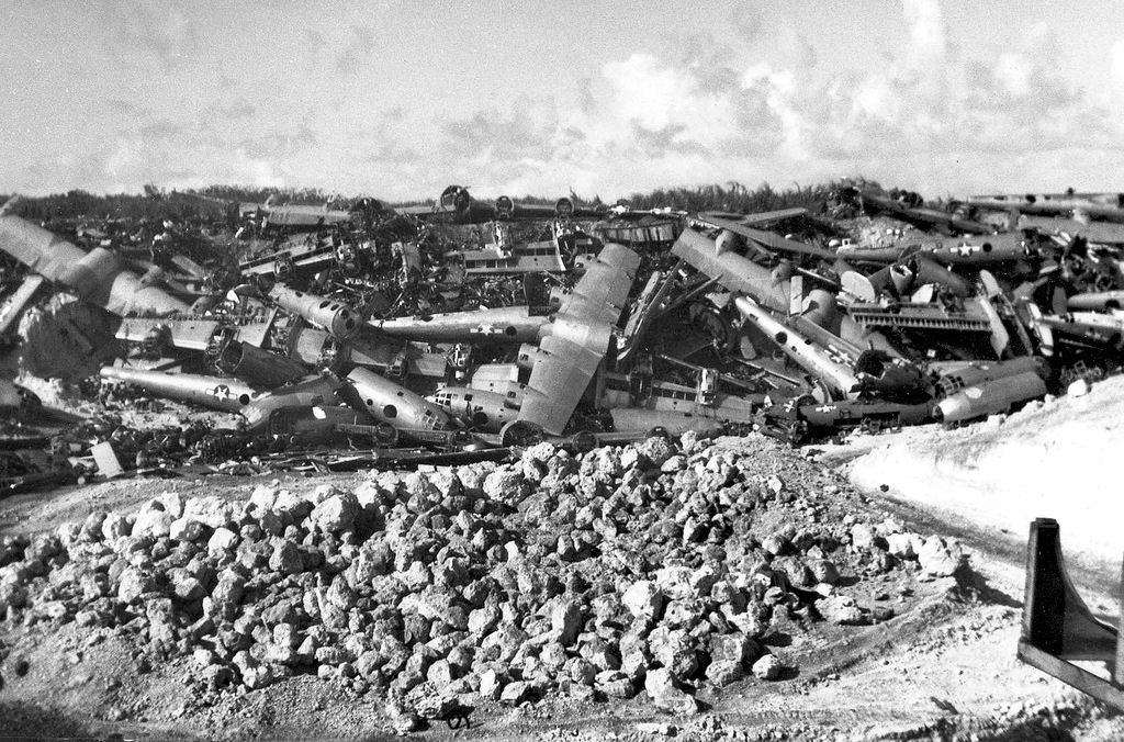 B-29 scrapyard, Tinian, 1946